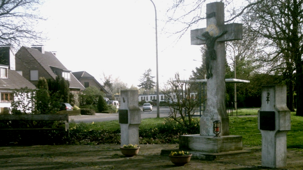 Stone Cross in Bockert, Viersen, Germany